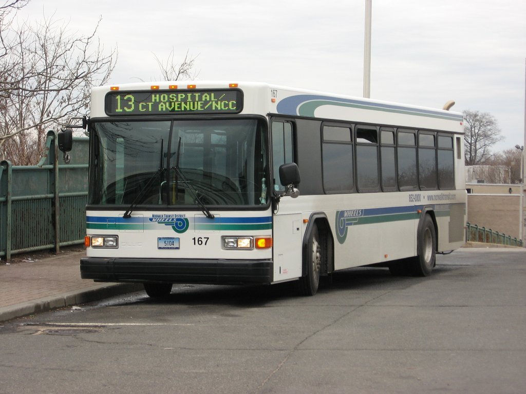 Norwalk Transit District Gillig Advantage 167 in downtown Norwalk